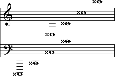 Notes, C Double Sharp